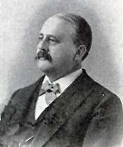 James Hodge Codding, US Representative from Pennsylvania